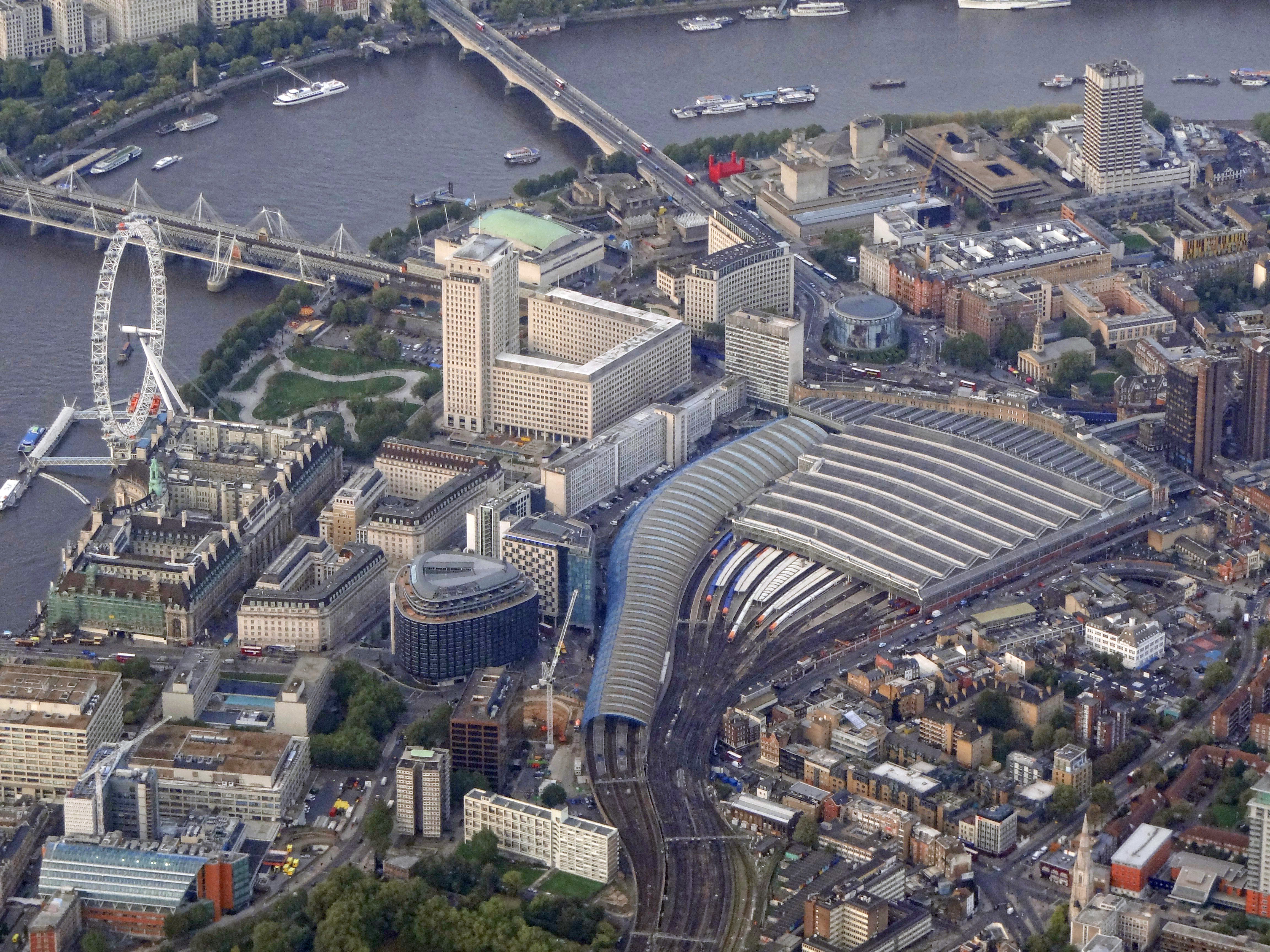 Waterloo Station in Central London, United Kingdom, photographed from a commercial flight approaching Heathrow Airport from the east. The bridge at the top of the photo is Waterloo Bridge with A301 running across it, while the bridge at the top left edge is Hungerford Bridge. The Ferris wheel at the left is the London Eye. The river in the background is the Thames.